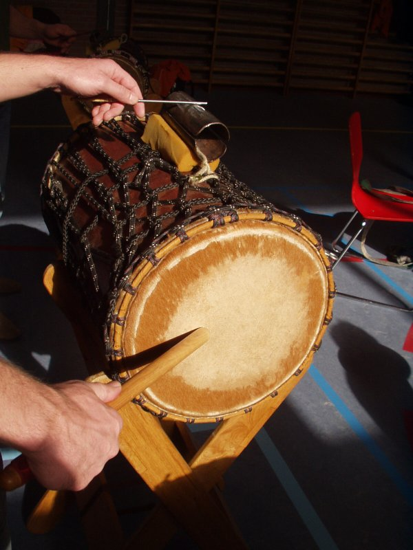 Sangban, a mdeium-sized west african drum